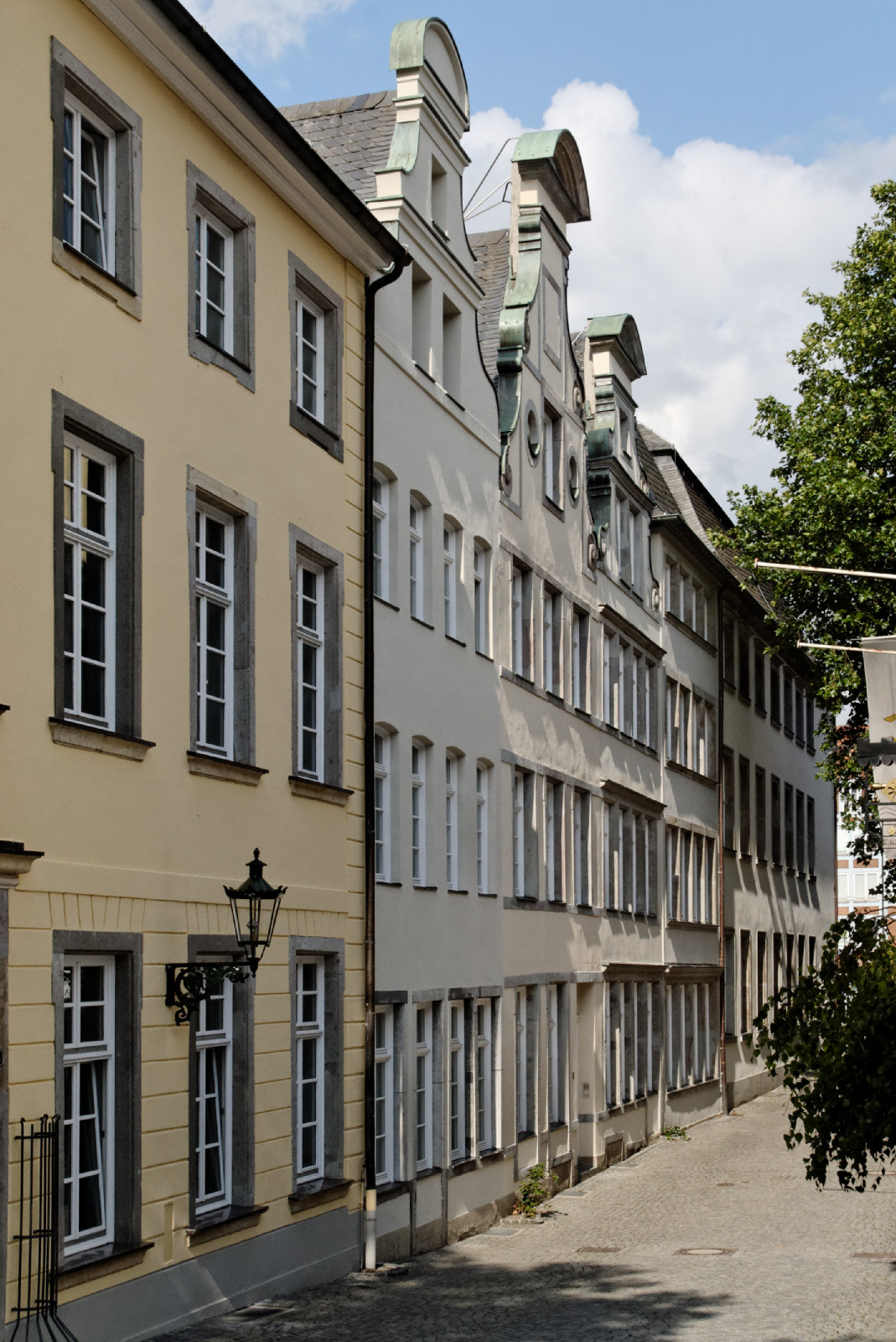 Houses Zollstraße 6 to 10 in Düsseldorf-Altstadt, Germany